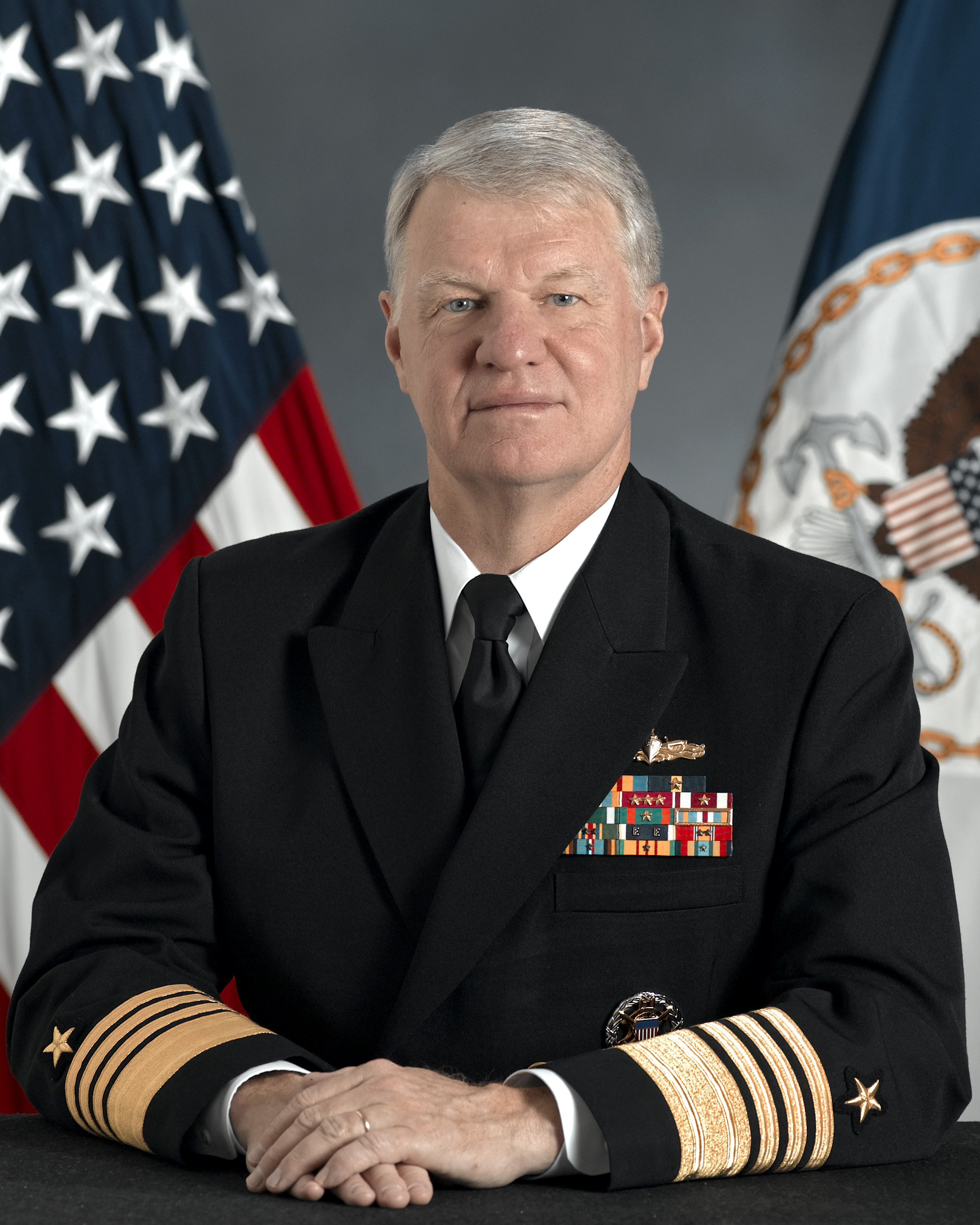 Navy file photo of Chief of Naval Operations (CNO) Adm. Gary Roughead. Roughead relieved Adm. Mike Mullen Sept. 29, at a ceremony in the Pentagon to become the 29th CNO. U.S. Navy photo (RELEASED)